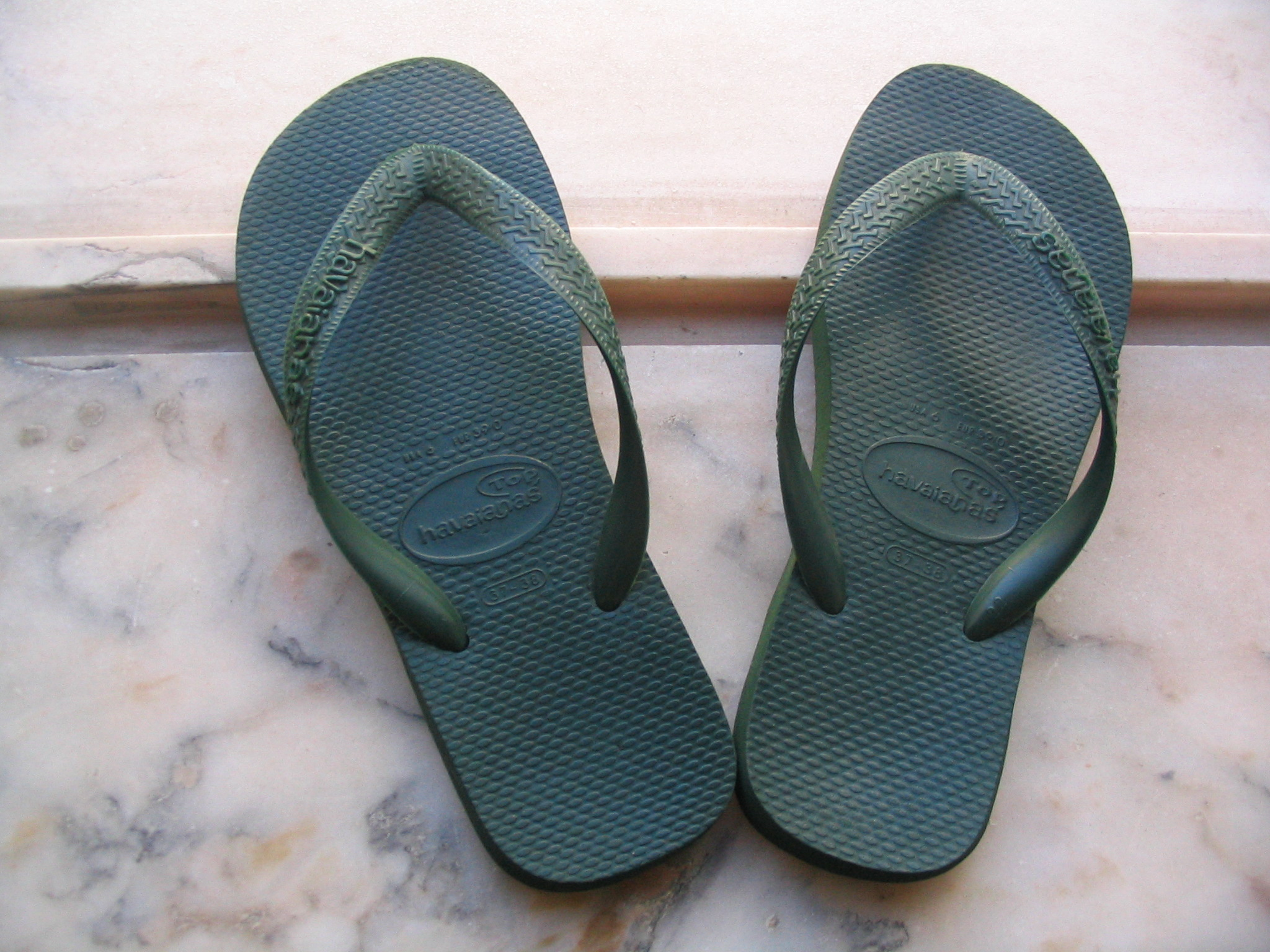 Havaianas flipflops: footwear Made in Brasil.